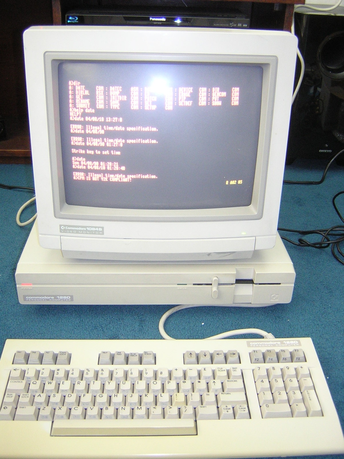 Commodore 128 running CP/M and using a 1084S 'High Resolution' Monitor :)